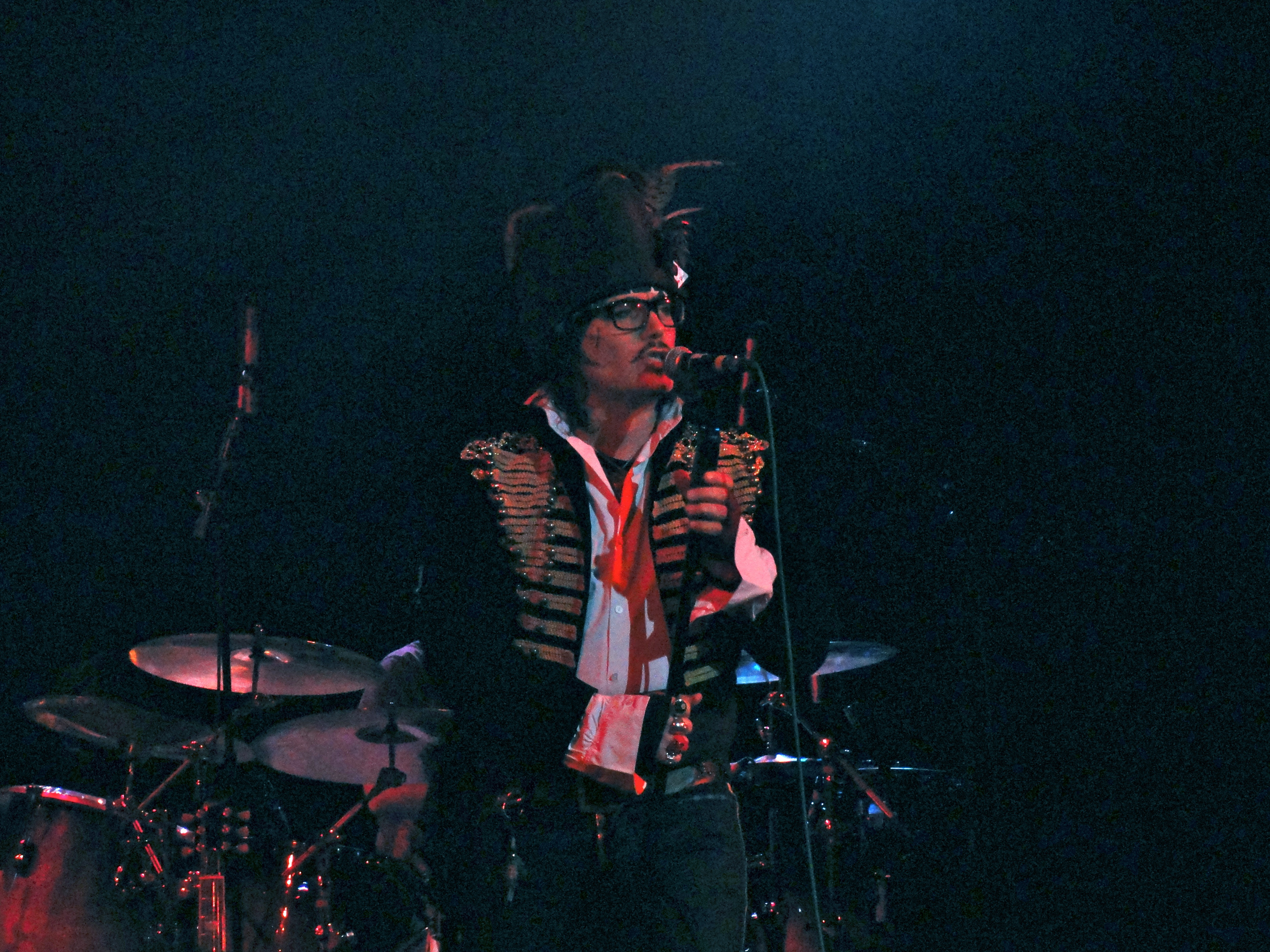 Adam Ant in concert.